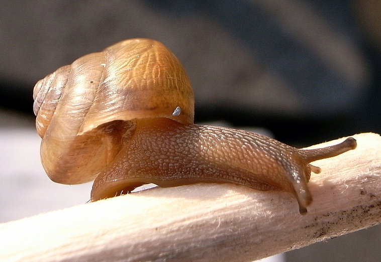 Acusta despecta sieboldiana at Takasago city, Hyogo, Japan.